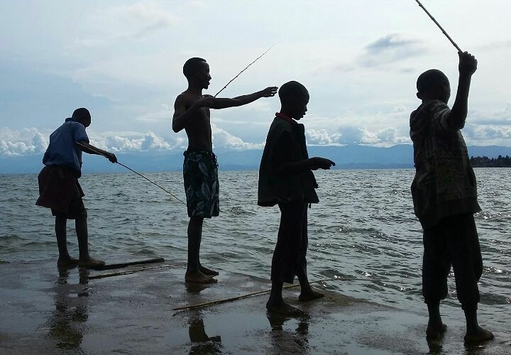 Young fisher This is an image of "African people at work" from Congo